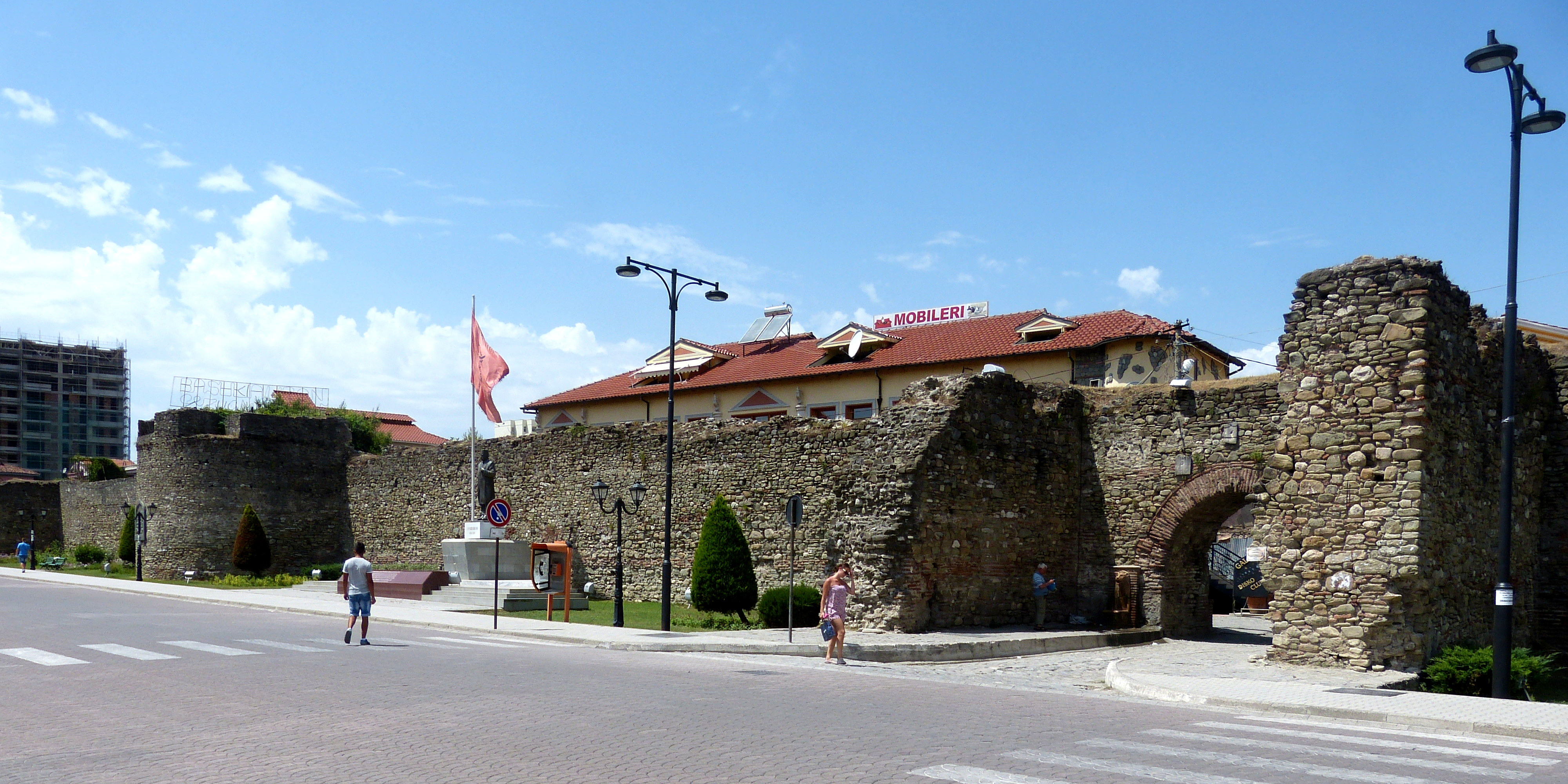 Elbasan ( Albania ). City walls ( 320s, rebuilt in 1466 ) - Gate.